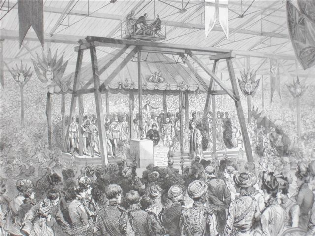 An engraving showing Arthur Sullivan conducts his Imperial Ode as Queen Victoria lays the foundation stone of the Imperial Institute (1887)